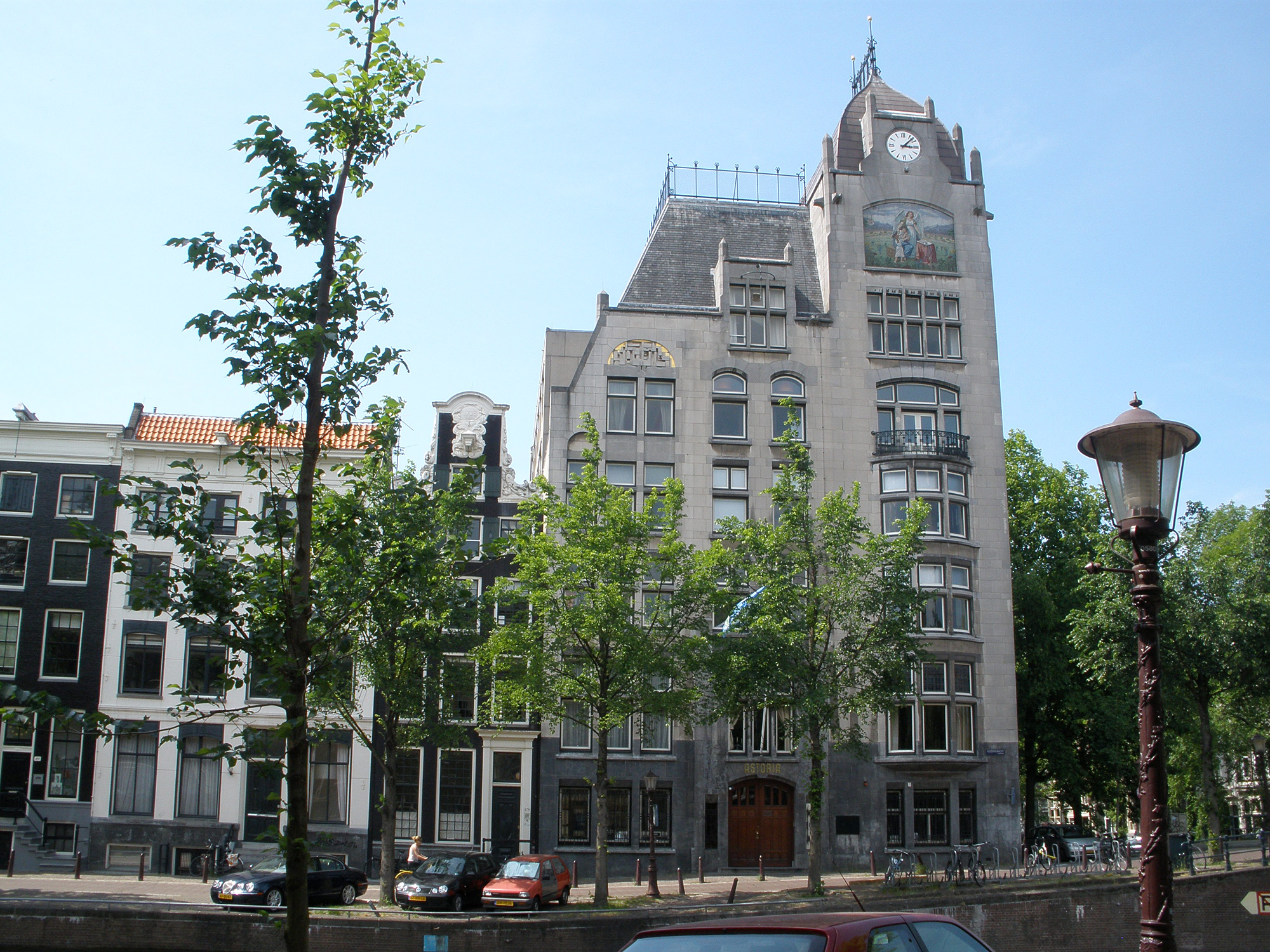 The Astoria building (1904/05) at Keizersgracht 174-176 in Amsterdam, at the intersection of the Keizersgracht and Leliegracht canals. This Jugendstil building was designed by Gerrit van Arkel and H.H. Baanders as the offices of the life insurance company Eerste Hollandsche Levensverzekerings Bank. In more recent years, it served as headquarters of Greenpeace. In 2001 the building received rijksmonument (national monument) status.